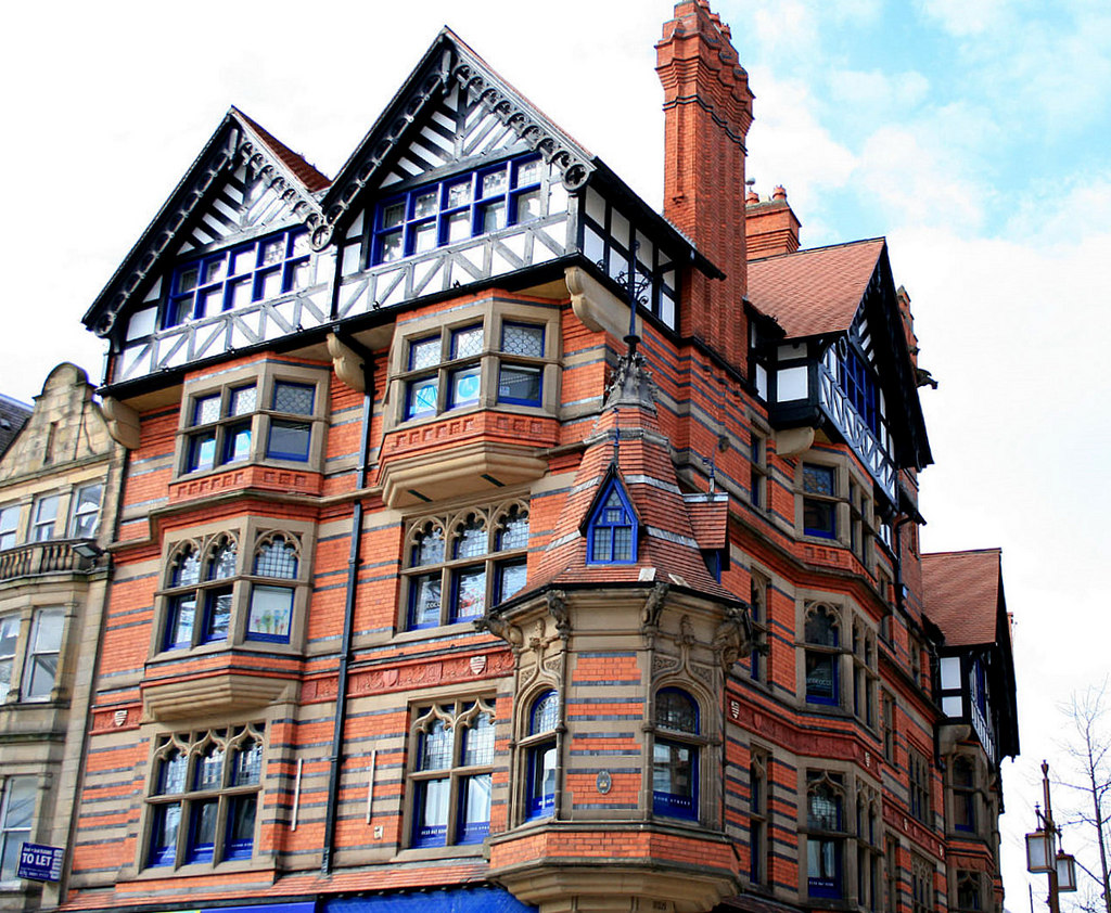 Queen's Chambers On the corner of King Street and Long Row this is one of the most characteristically eccentric surviving buildings by Watson Fothergill. It was built in 1897 and named for Queen Victoria's Diamond Jubilee.